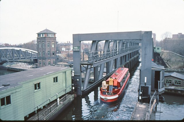 Barton Aqueduct (Bridgewater Canal) 1979 The Bridgewater Canal crosses the Manchester Ship Canal by means of this swinging aqueduct. Close alongside is the road swing bridge which, before Barton motorway viaduct, formed the only road crossing for lorries between Manchester Docks and Warrington.